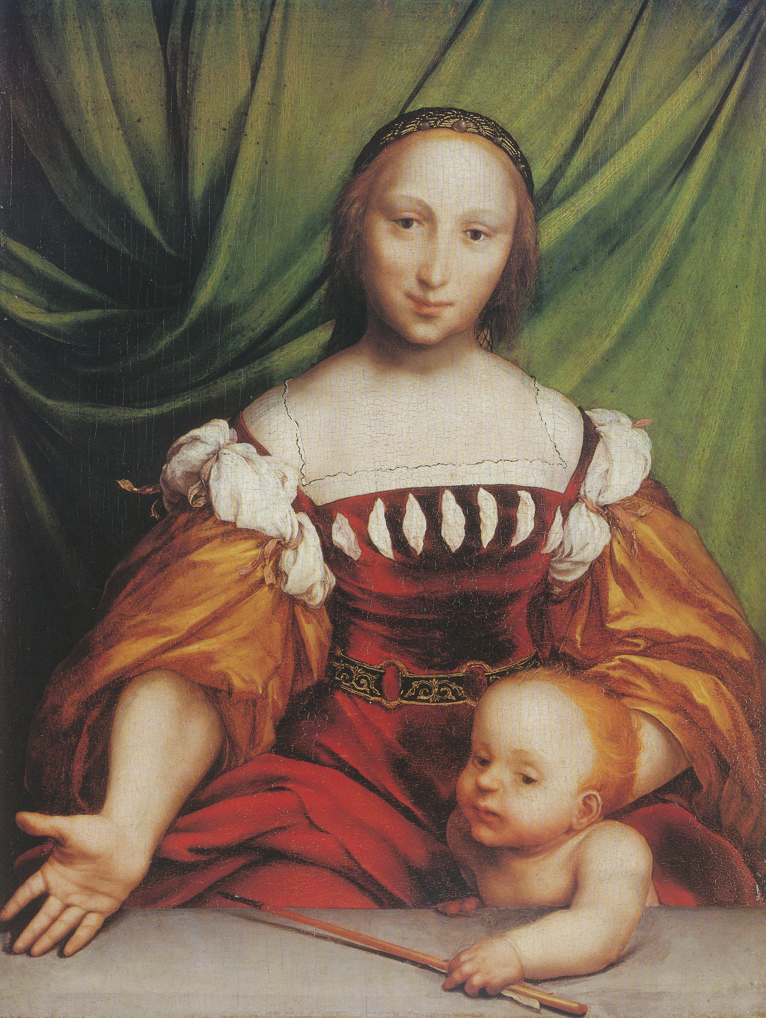 Lais of Corinth The first of Holbein's mythological works, this painting shows Venus, the Roman goddess of love, with Amor (Cupid) clutching love's arrow. The work entered the Amerbach collection in 1578, where the inventory records that it depicts a member of the Offenburg family. The model, the same used for Holbein's Darmstadt Madonna and for his Lais of Corinth, has been identified with Magdalena Offenburg, who may have been Holbein's mistress. Holbein's Lais (right) was painted a year or two after Venus and Amor and, in effect, acts as a companion piece, though Holbein does not appear to have originally planned the second painting. In the later portrait, the sitter is portrayed as a courtesan, who takes money in return for her affections; according to some scholars, it may therefore contain a coded message by Holbein about his relationship with Magdalena. Art historian Peter Claussen, however, dismisses this interpretation as "pure nonsense". Both paintings employ the same colours and depict the same costumes and drapery. Holbein adopts the style of Leonardo and the Lombard muralists, whose work he may have studied during a visit to Italy. He uses Leonardo's sfumato (smoky) technique to smooth the contours of the faces and limbs, as well as the device of the parapet to set the subject back from the viewer. (References: Buck, pp. 44–43; Derek Wilson, Hans Holbein: Portrait of an Unknown Man, London: Pimlico, 2006, ISBN 1844139182, pp. 112–13; Peter Claussen, "Holbein's Career between City and Court", in Müller, Kemperdick, Ainsworth, et al, Hans Holbein: The Basel Years, 1515–1532, Munich: Prestel, 2006, ISBN 9783791360522, p. 47.)